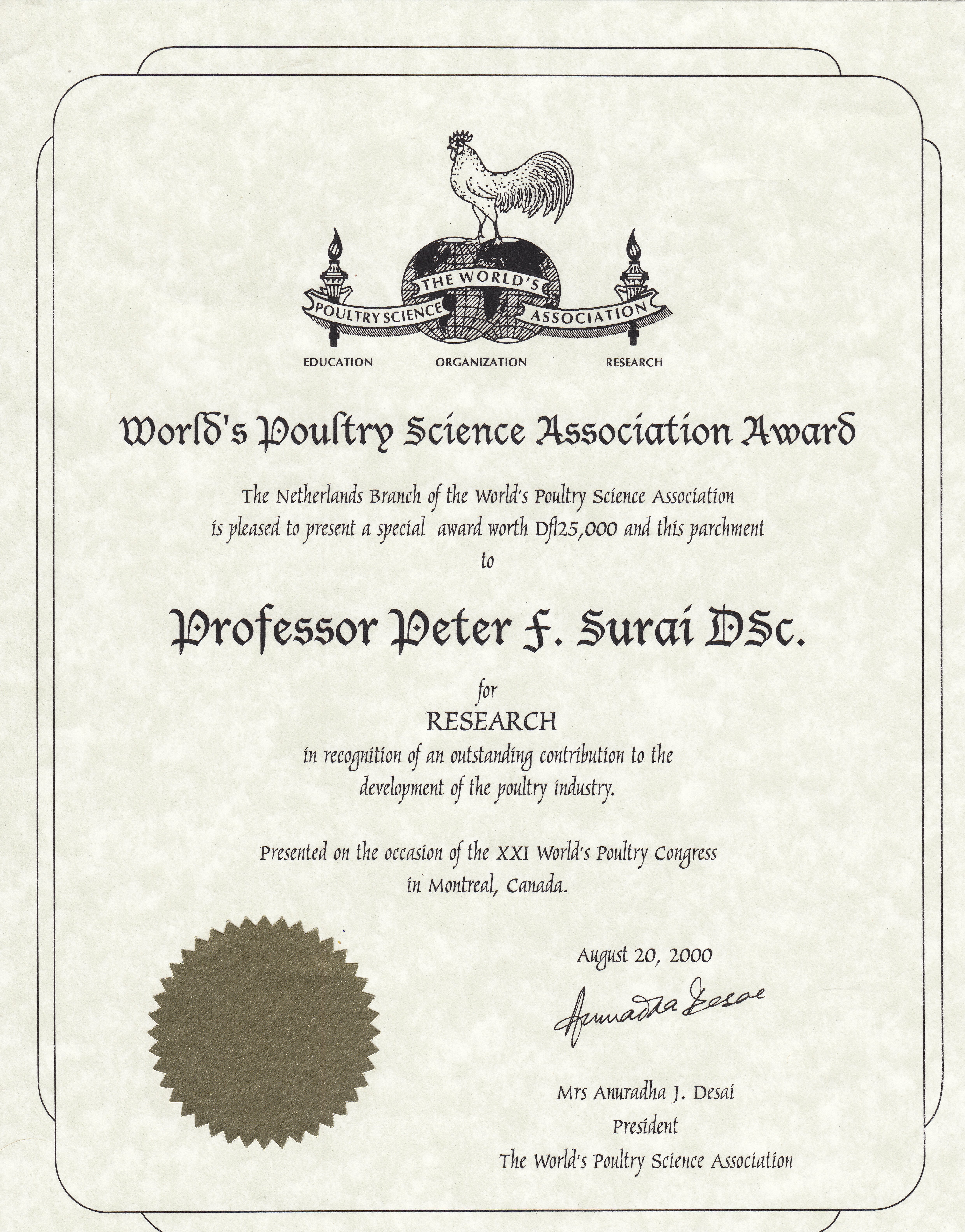 Peter F. Surai's World’s Poultry Science Association Award for Research (2000)